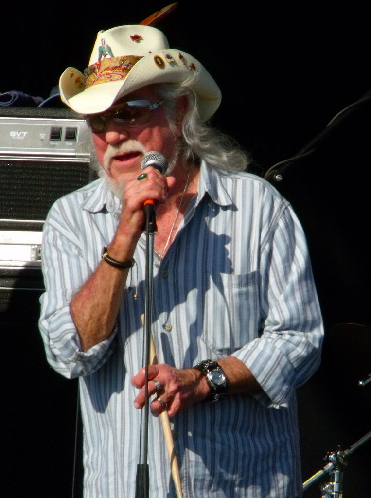 Ray Sawyer live at Dutch Mason Blues Festival, Sunday, 9 Aug 2009